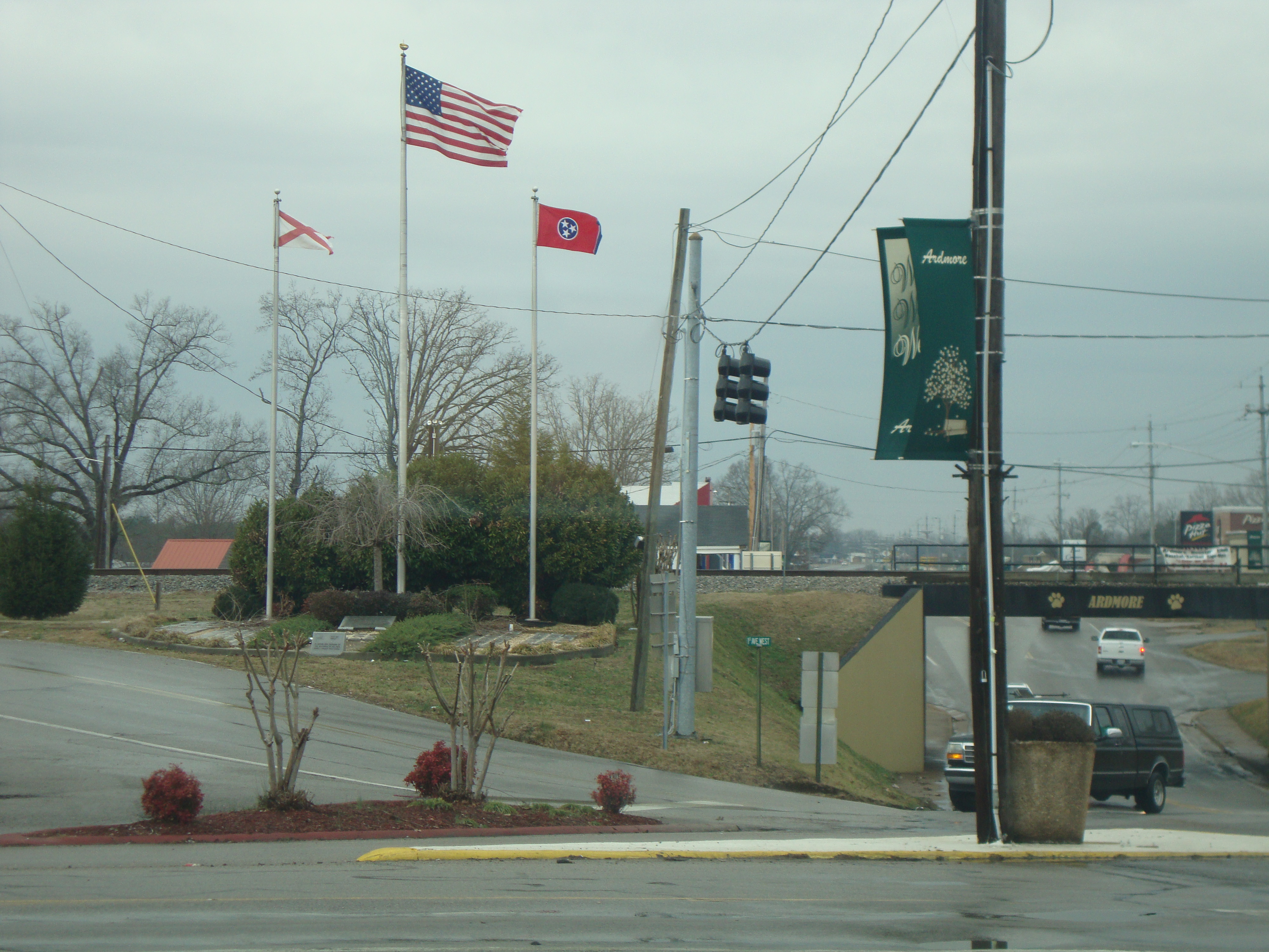 The flags of Tennessee and Alabama states with the US flag in Ardmore, Tennessee. Ardmore is located at the border line between the states of Tennessee and Alabama.